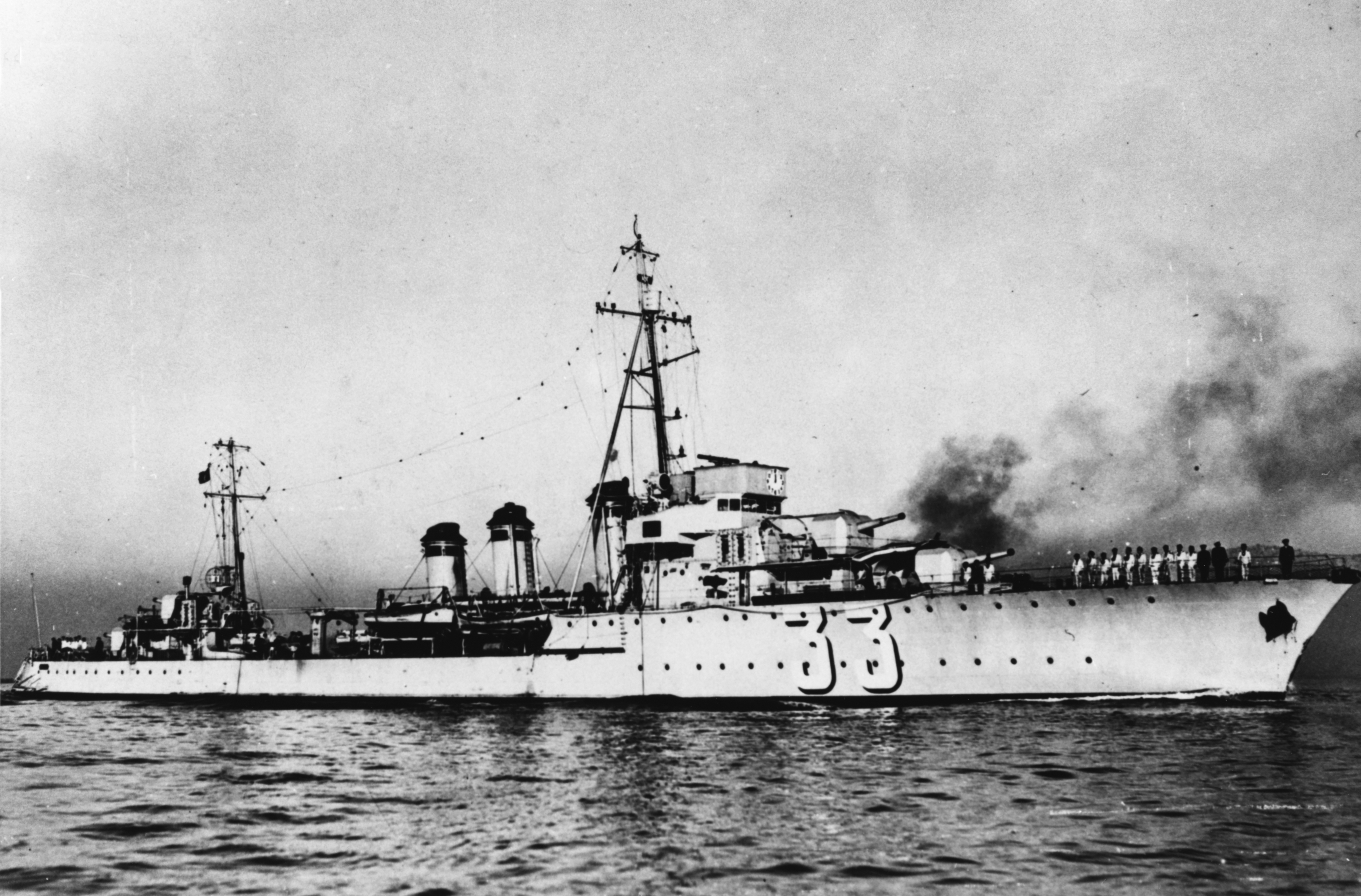 A French Bourrasque/L'Adroit-class destroyer, probably Tornade, Typhon or Boulonnais, off Toulon in the Mediterranean during 1936-1939.